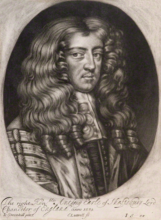 Anthony Ashley-Cooper, 1st Earl of Shaftesbury